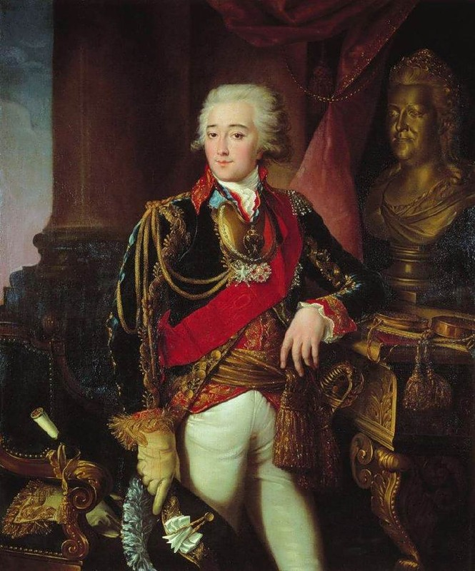 Count Dmitriev-Mamonov, Aleksandr Matveyevich (1758 - 1803) was a Russian lieutenant general and adjutant general.